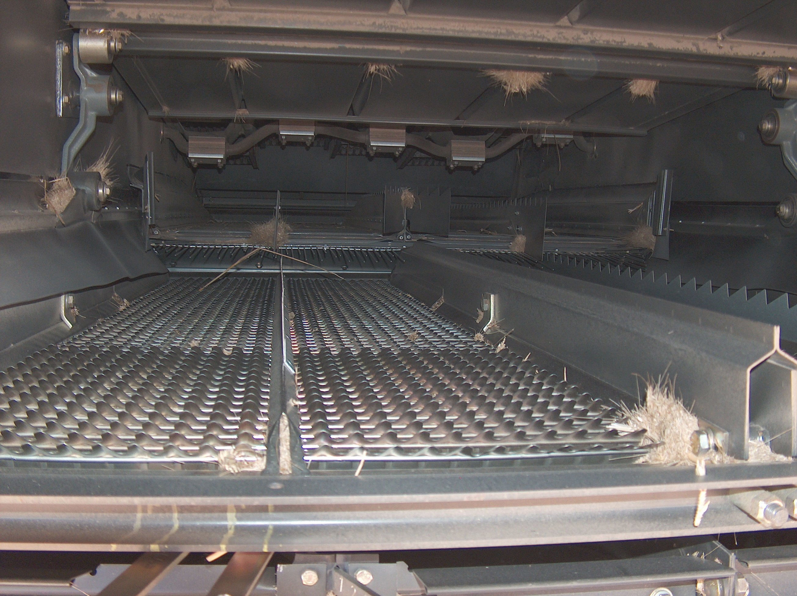 Grids of a Claas combine harvester header – Vocational Institute of Agriculture and Environment "Cettolini" of Cagliari (Sardinia, Italy) – Associated School of Villacidro (Sardinia, Italy)